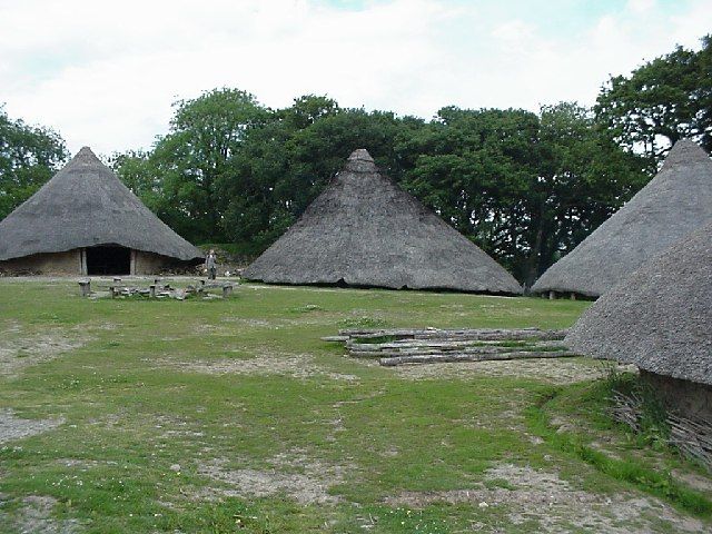 Castell Henllys. Active archeological site with a reconstructed iron age village.